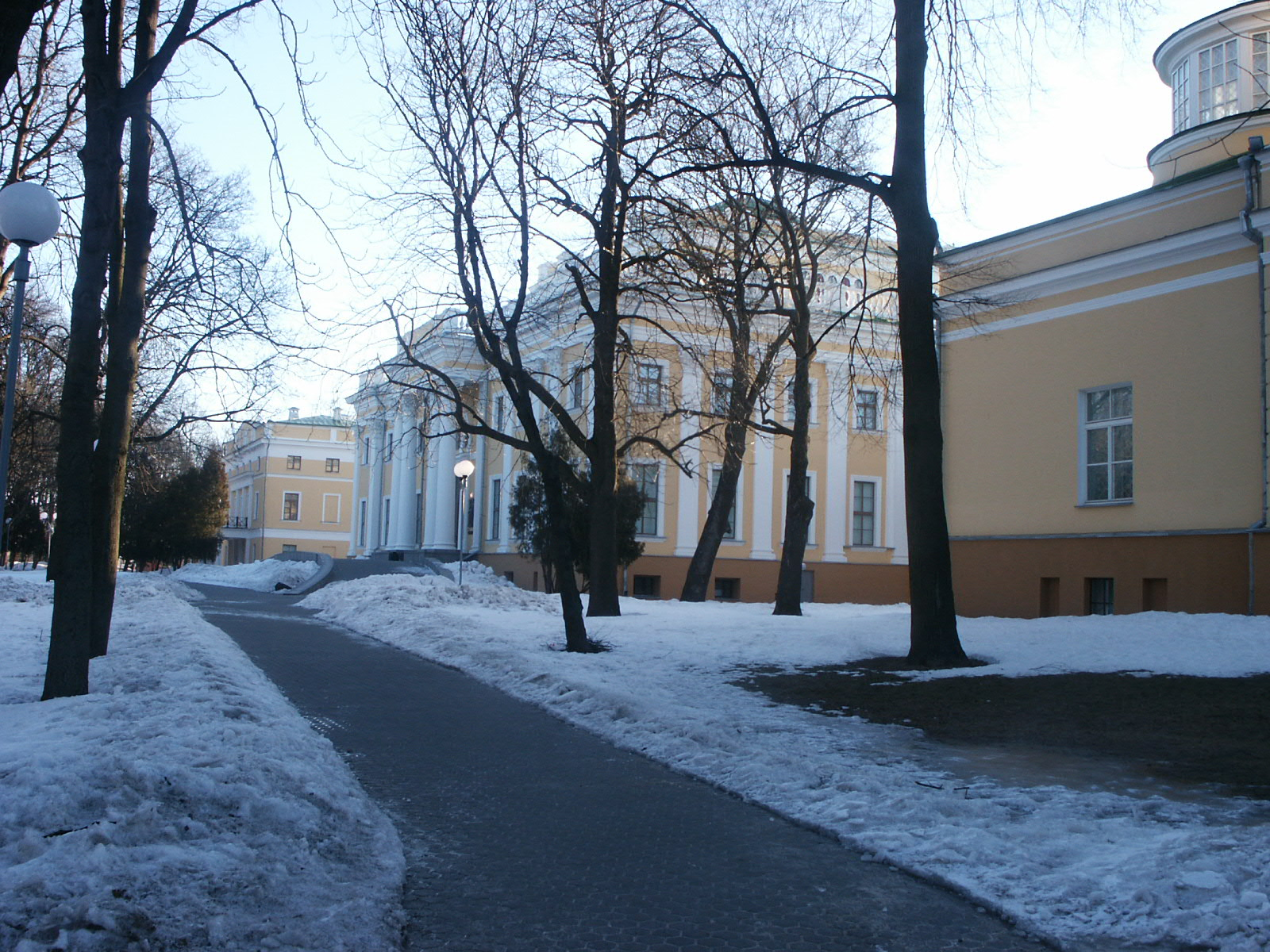 Palace of Pashkevichs, Homel, Belarus.